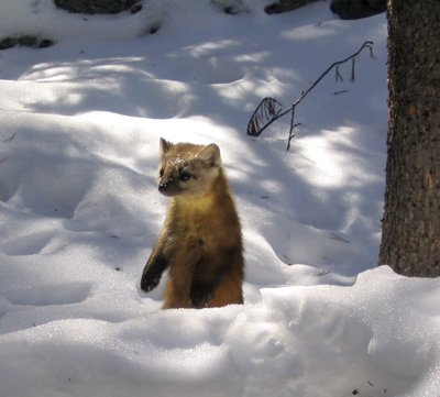 American marten (Martes americana)